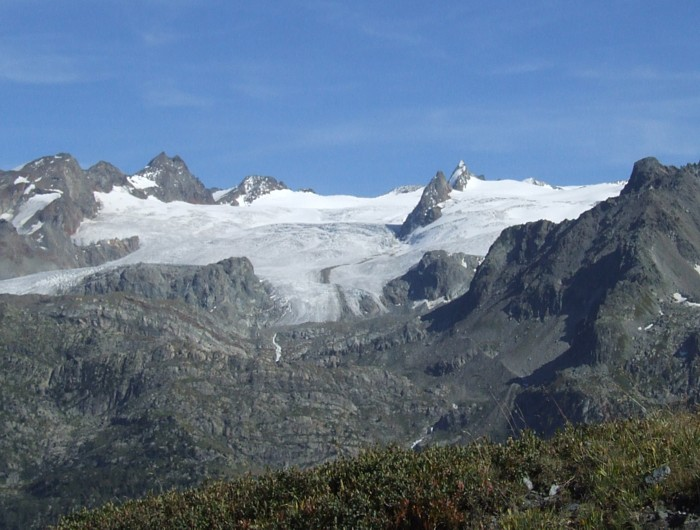 Rutor Glacier (from northwest, [ Picture taken by user Idefix august 2006.